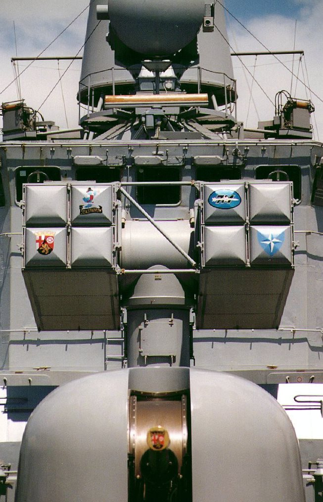 View aft from the bow on the German frigate Rheinland-Pfalz (F 209) at Puerto Rico, in 1988. Visible in front is the 7.6 cm gun turret, with the Mk 29 launcher for the RIM-7 Sea Sparrow in front of the bridge.